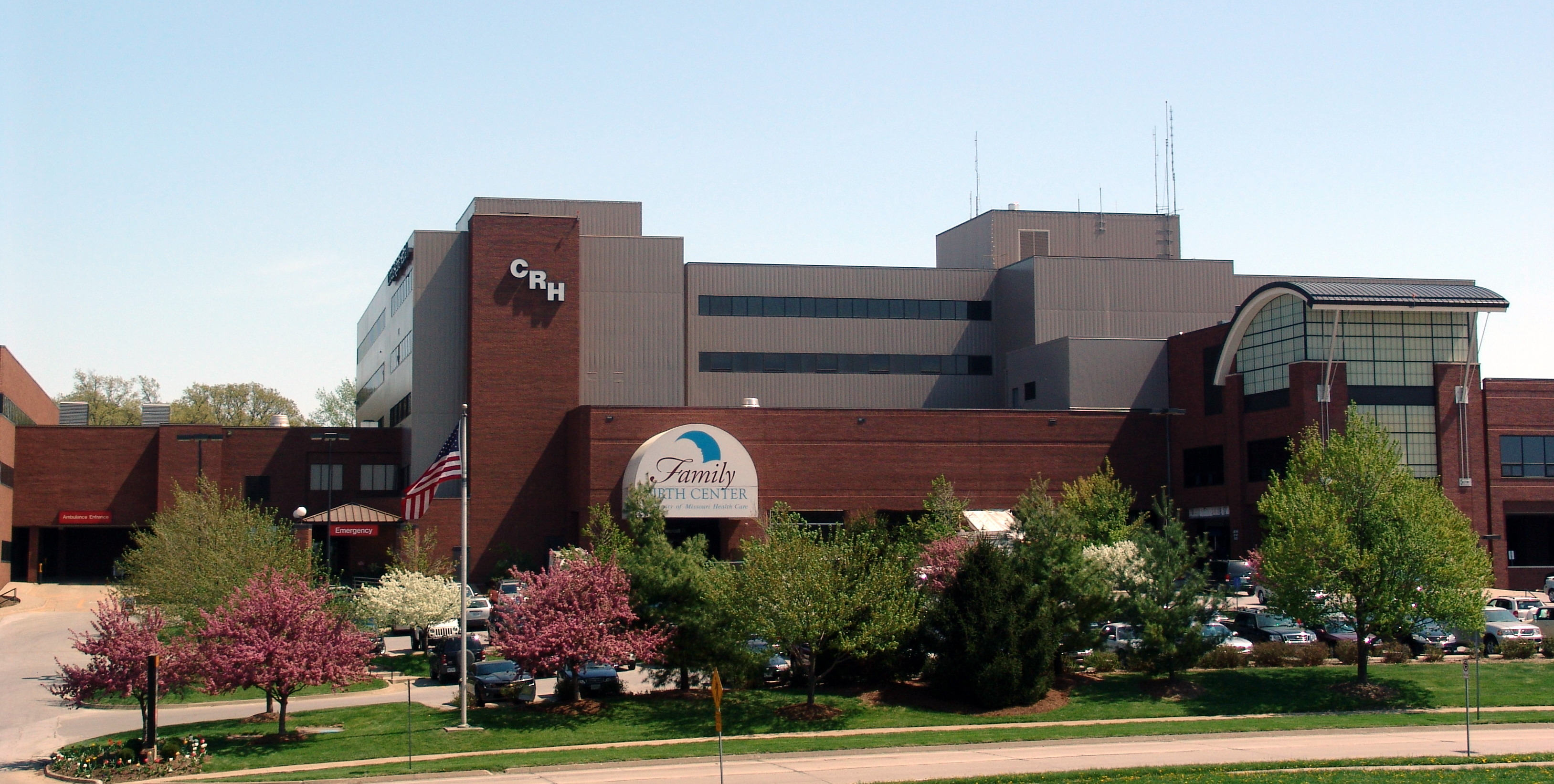 A photo of Columbia Regional Hospital in Columbia, Mo